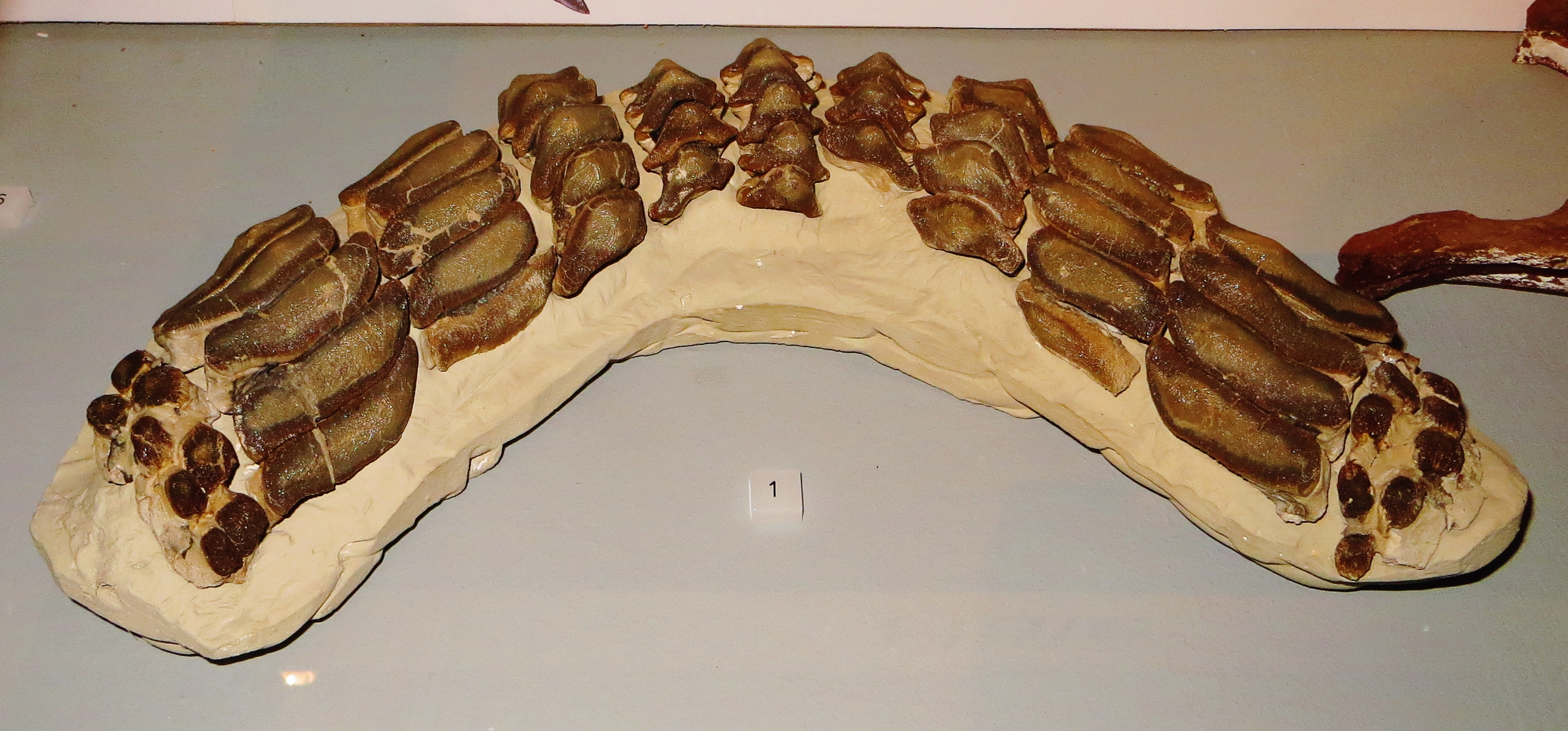 Fossil teeth of Asteracanthus, an extinct fish. Took the picture at Museum of Paleontology, Tuebingen